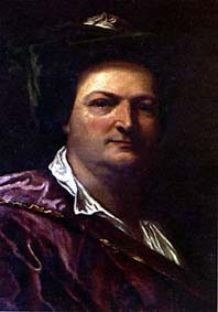 François-Henry Clicquot (1732-1790), French pipe organ builder.